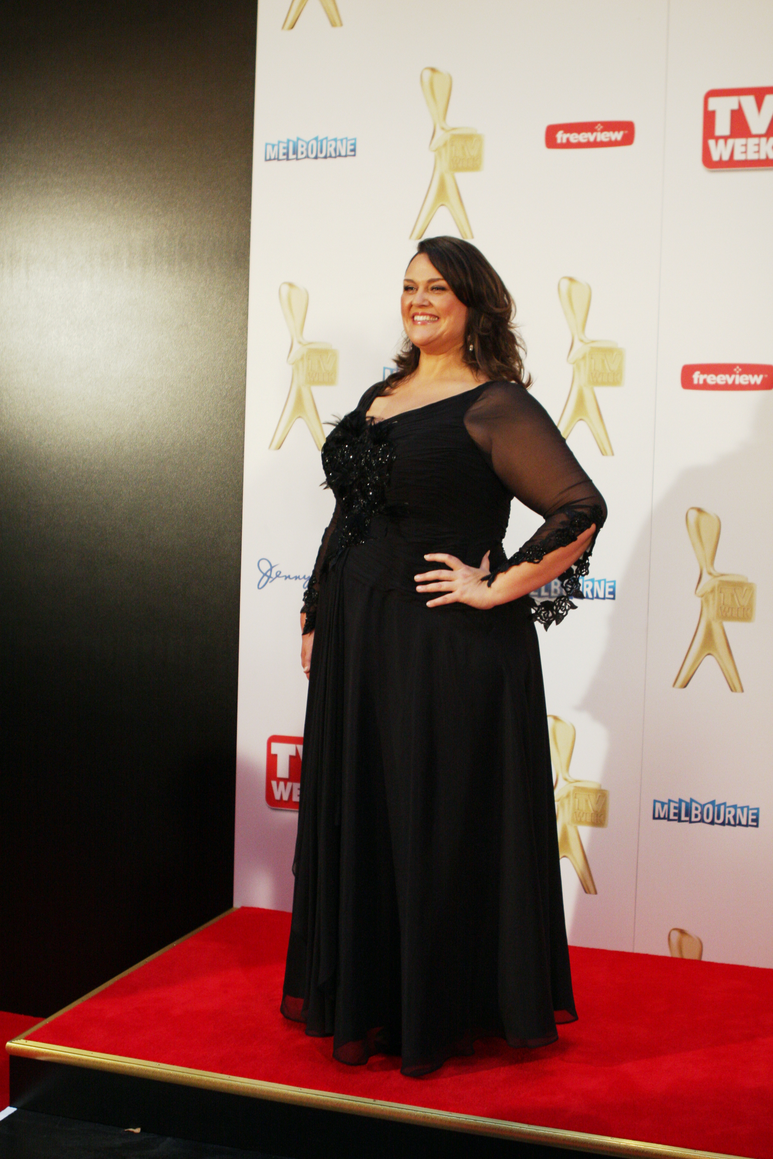 Chrissie Swan on the red carpet of the 2011 TV Week Logie Awards.